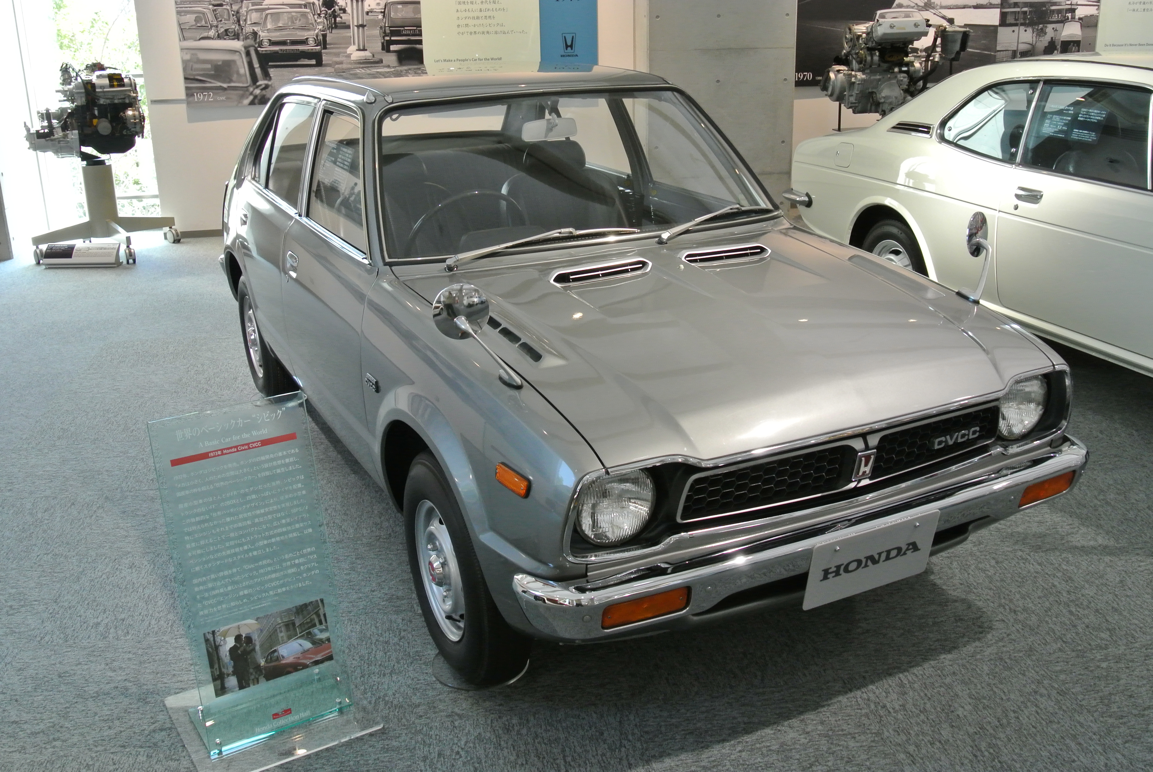 Honda CIVIC in the Honda Collection Hall.